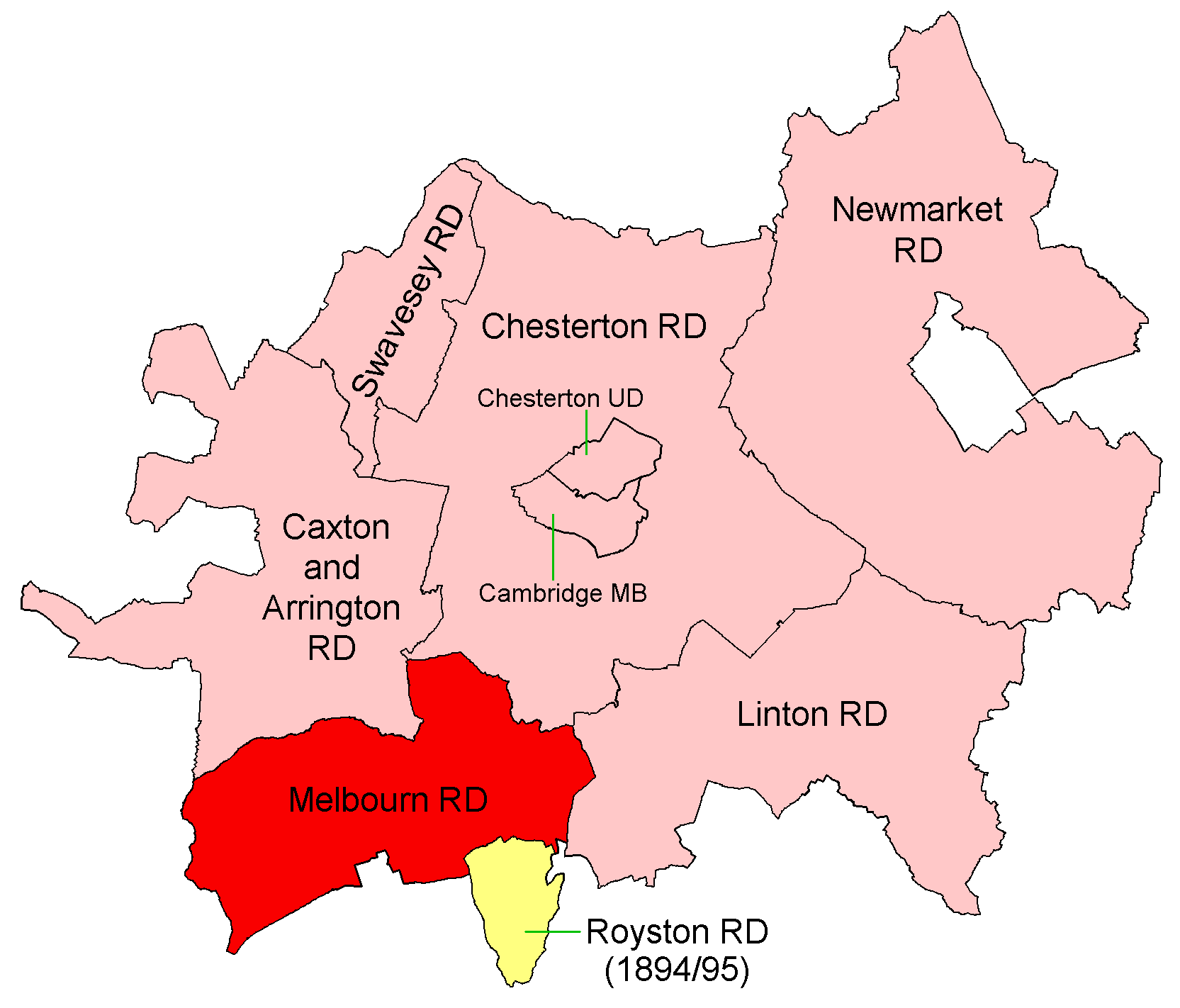 Melbourn Rural District, shown within the administrative county of the Cambridgeshire. Cambridge MB was enlarged, and Chesterton UD abolished, 1912. Other boundaries shown are correct from 1894 to 1934.